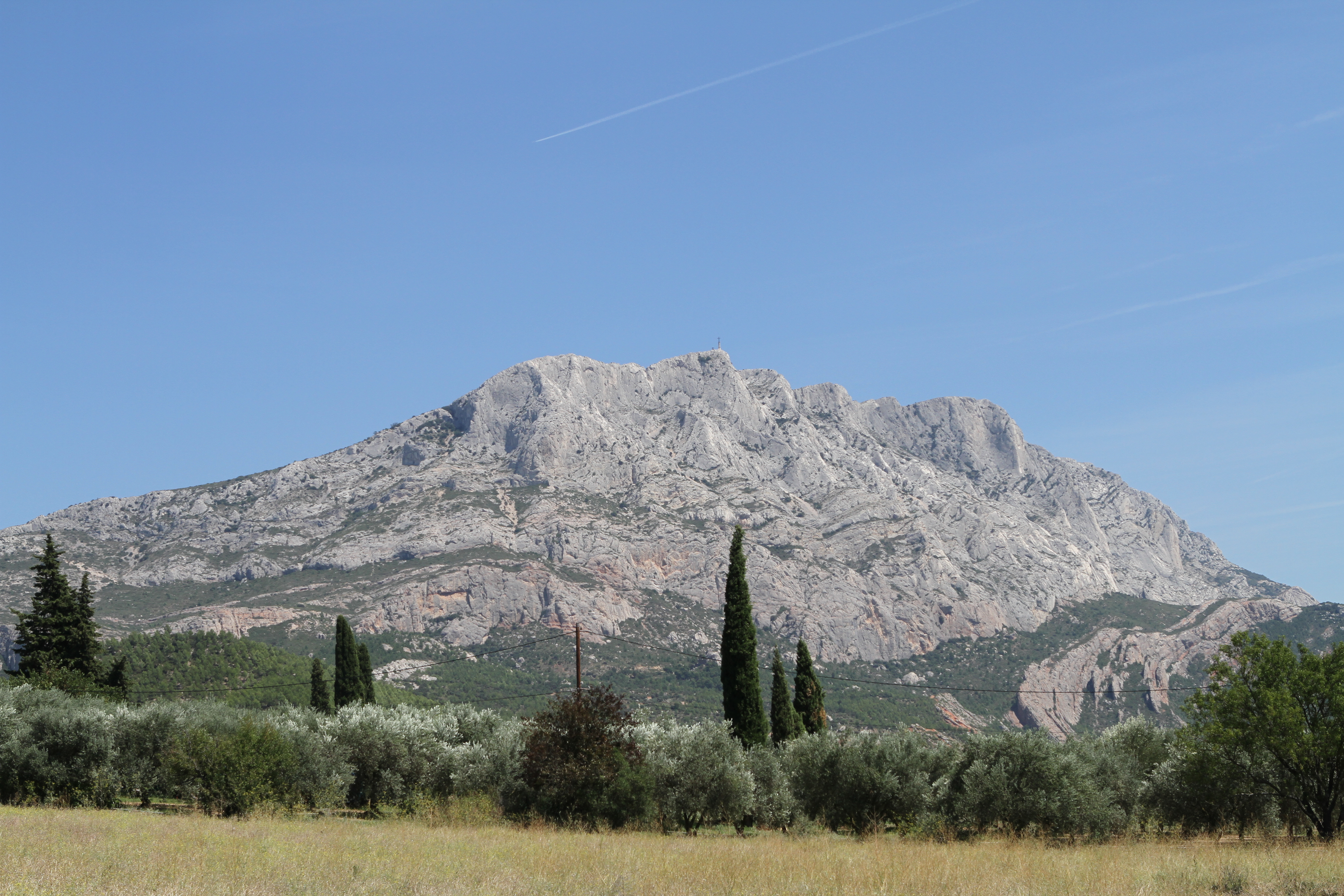 The Montagne Sainte-Victoire (Bouches-du-Rhône, France).